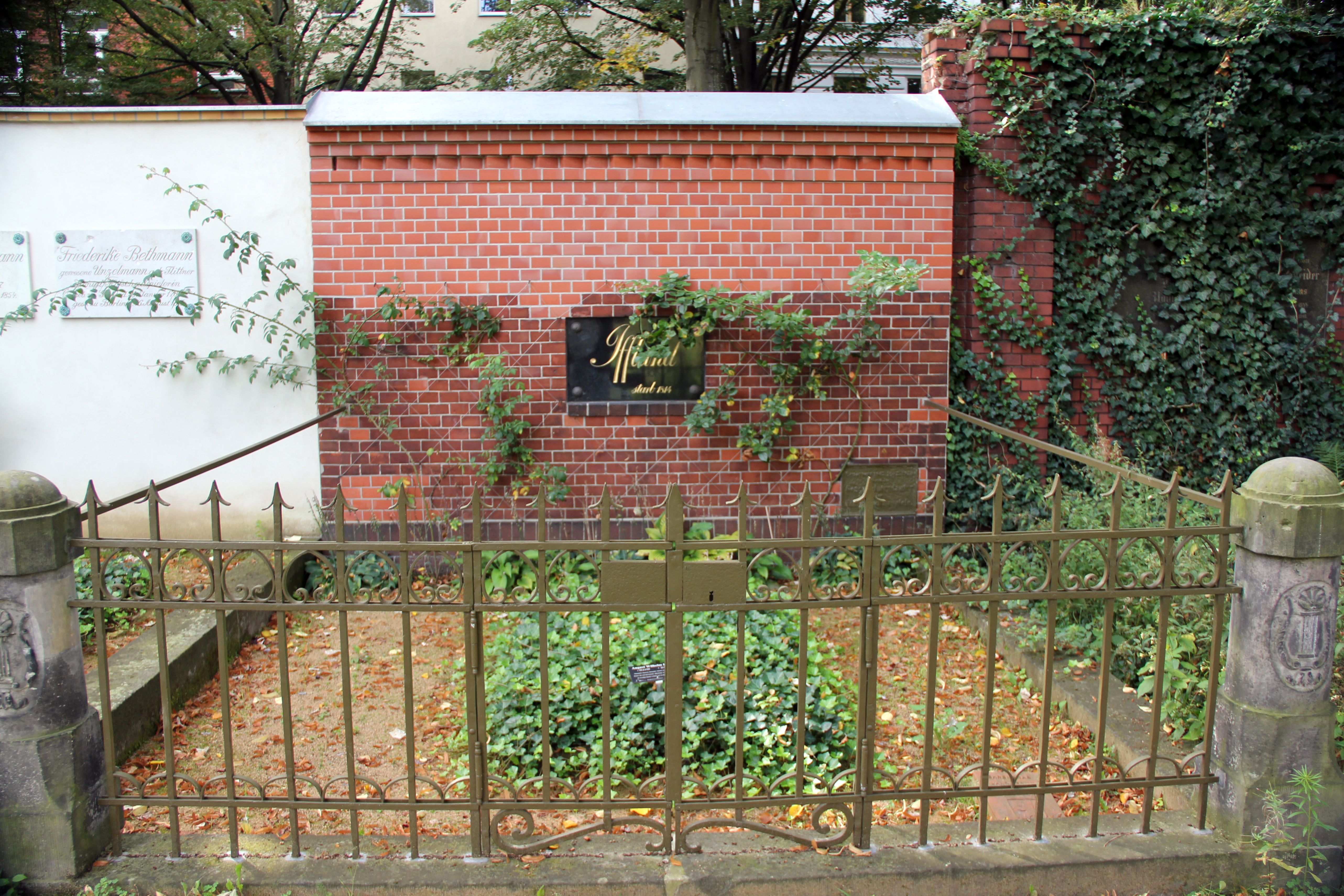 Grave of honor, August Wilhelm Iffland, Mehringdamm 21, Berlin-Kreuzberg, Germany